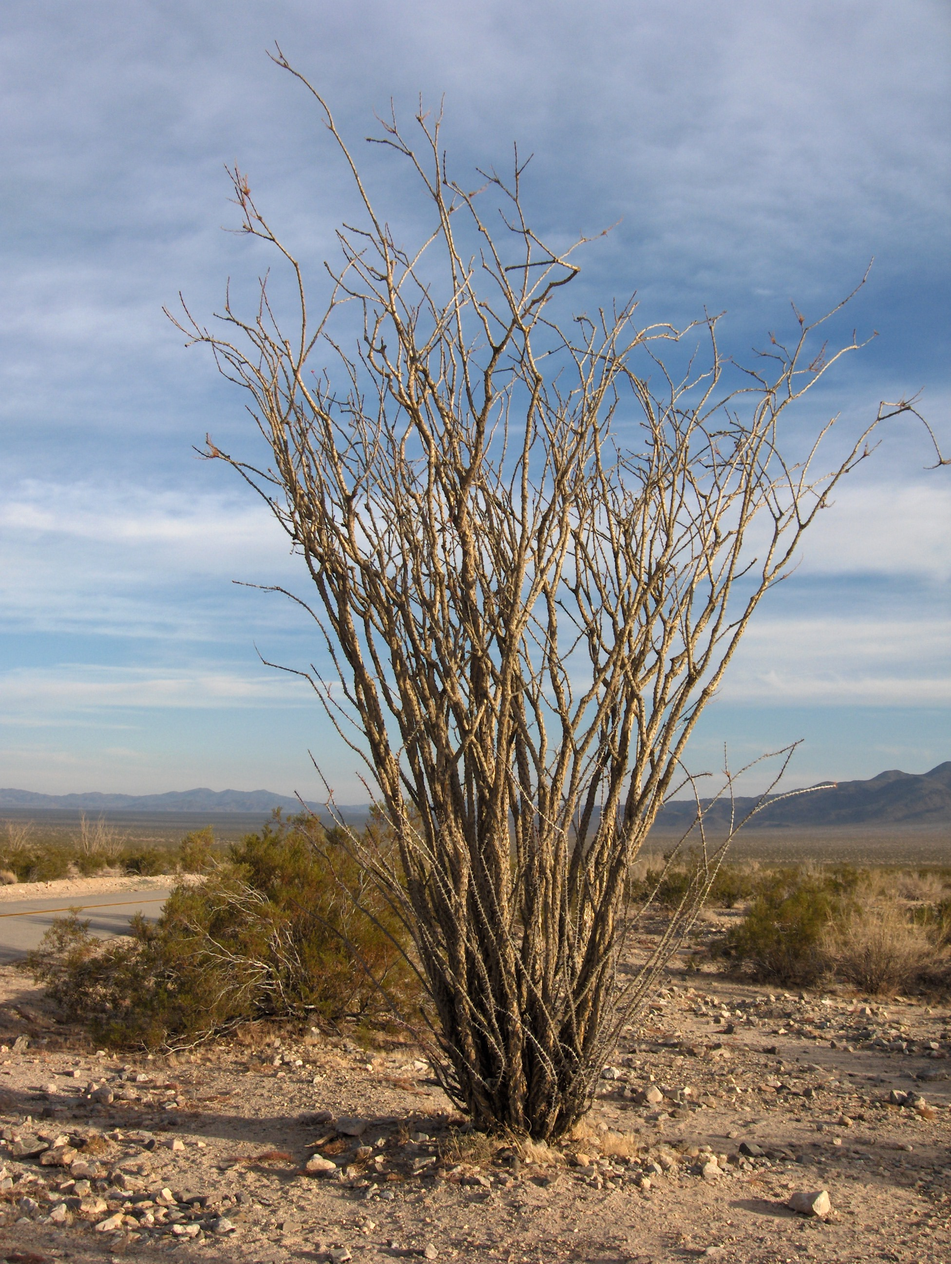 A dormant ocotillo (Fouquieria splendens) in Joshua Tree National Park, California, USA.